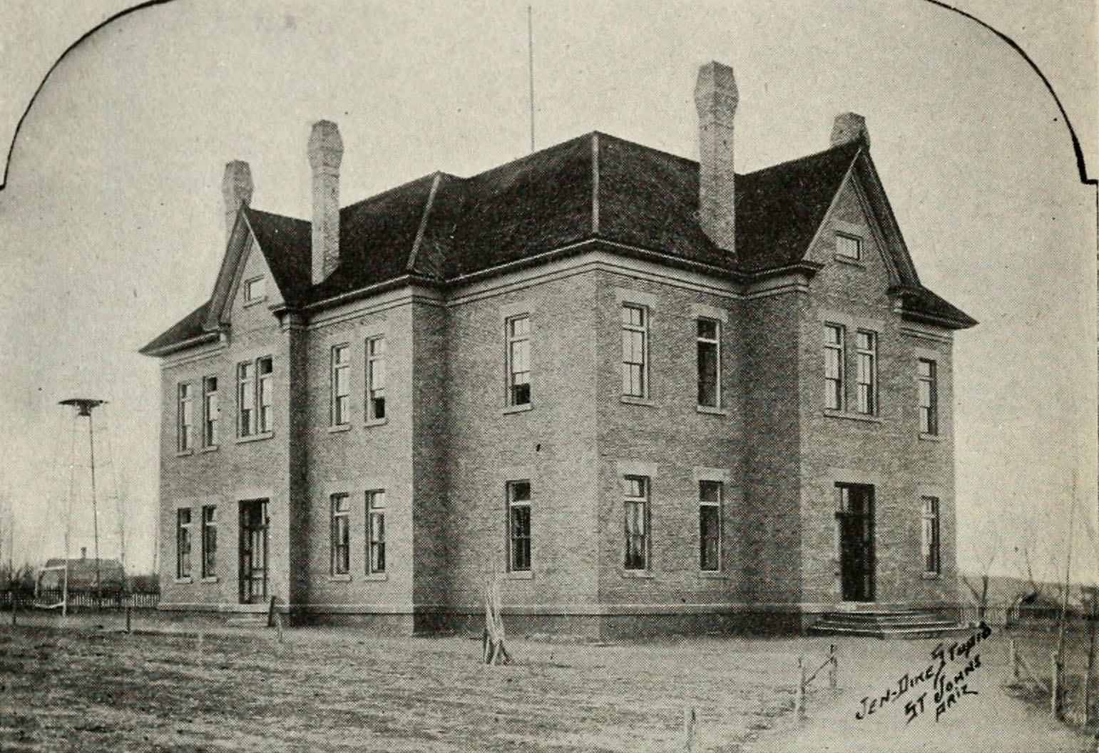 This is a photograph of the St. Johns Academy Building of The Church of Jesus Christ of Latter-day Saints (Mormon), published in 1914 in the ‘’Improvement Era’’ magazine. This building was constructed in 1900 at St. Johns, Arizona, United States, Samuel Doxey, architect.